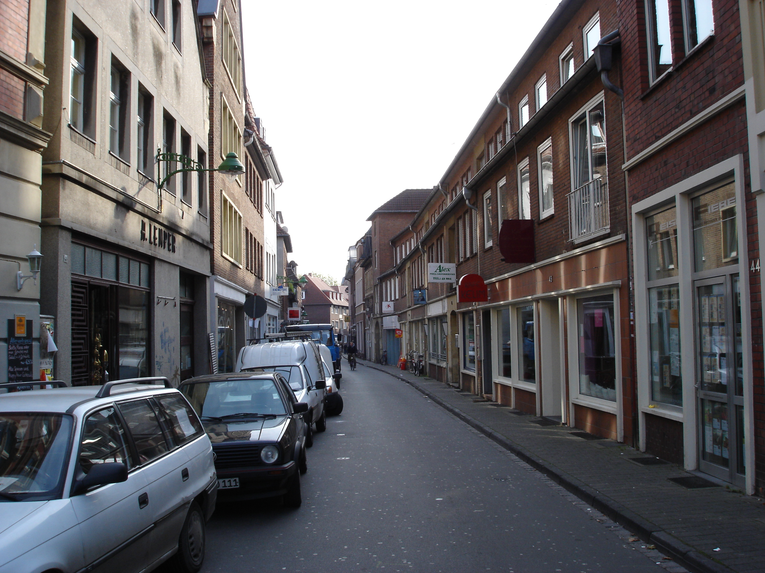 North part of the Jüdefelder Strasse in the Kuhviertel of Münster (Westphalia), Germany